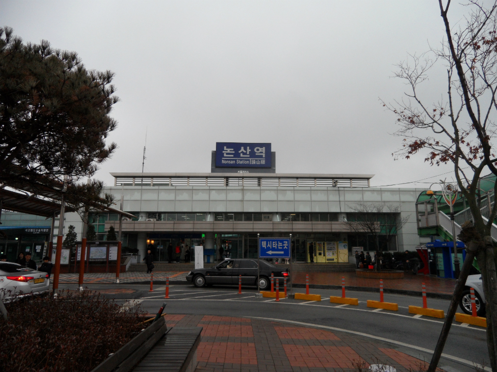 Nonsan station (Honam Line)